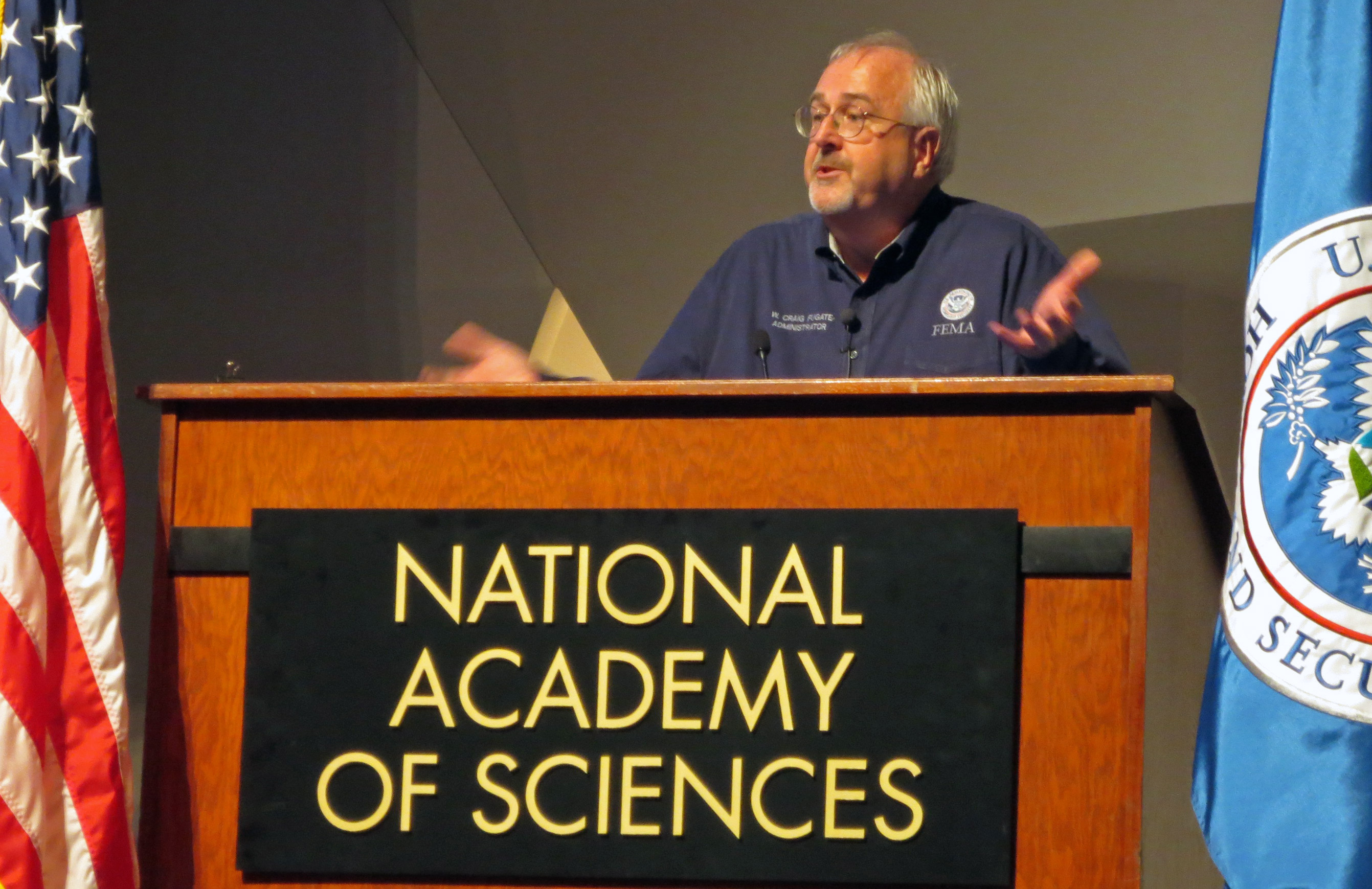 Craig Fugate, Administrator, Federal Emergency Management Agency, speaking at the National Academy of Sciences conference on "Building Resilience to Catastrophic Risks Through Public-Private Partnerships."